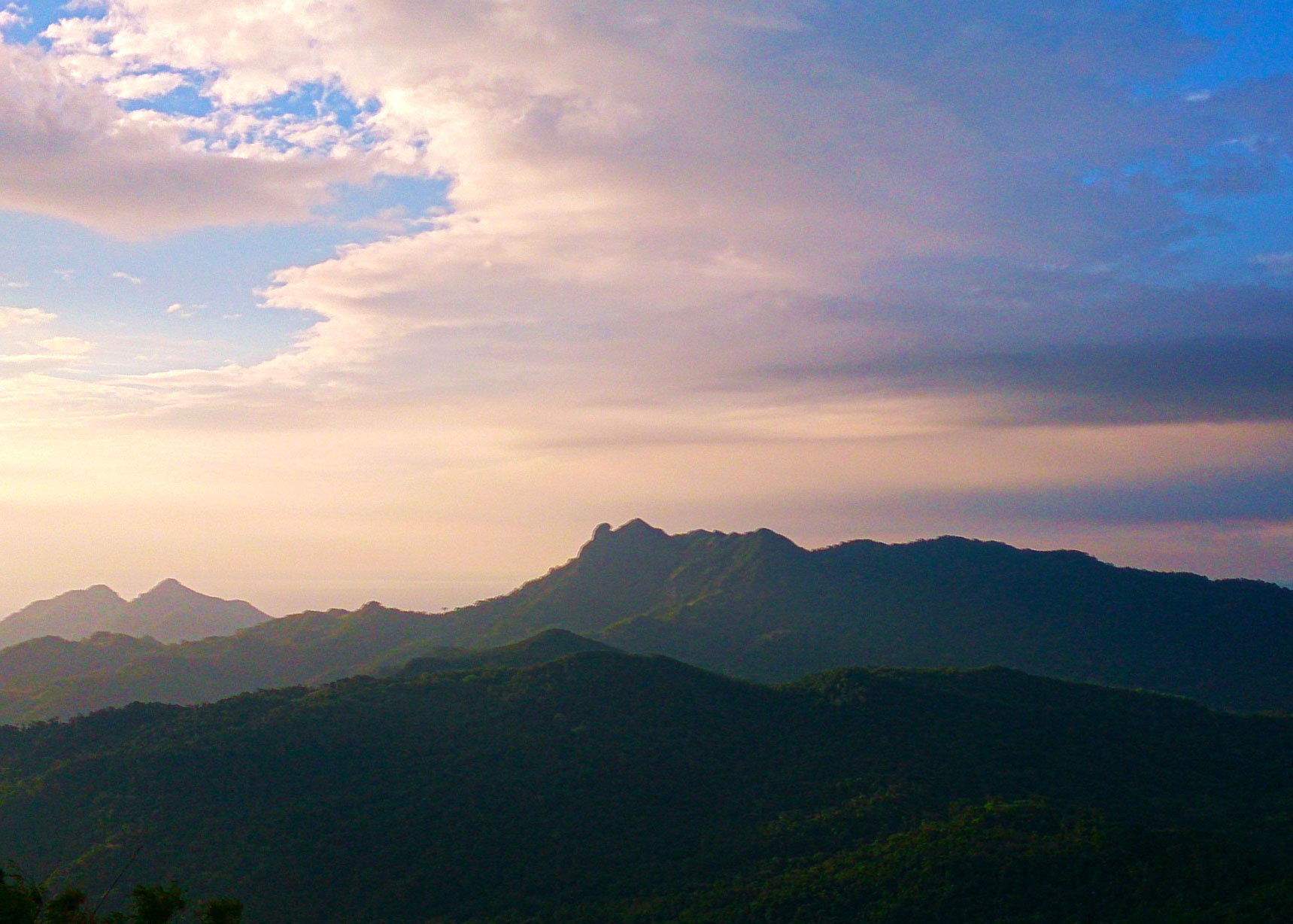 Mount Pico De Loro as taken from a vantage point at the summit of Mt. Marami at about five kilometers away. Photo shows Mt. Dos Picos at foreground and Mt. Naligang at background. Shot by Schadow1 Expeditions during its mapping expedition for the Mataas na Gulod Palay-Palay mountain range last 2014.